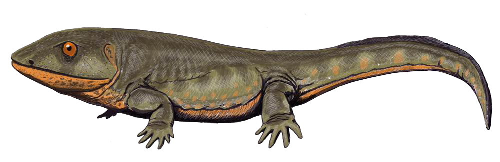 Pederpes, my own work